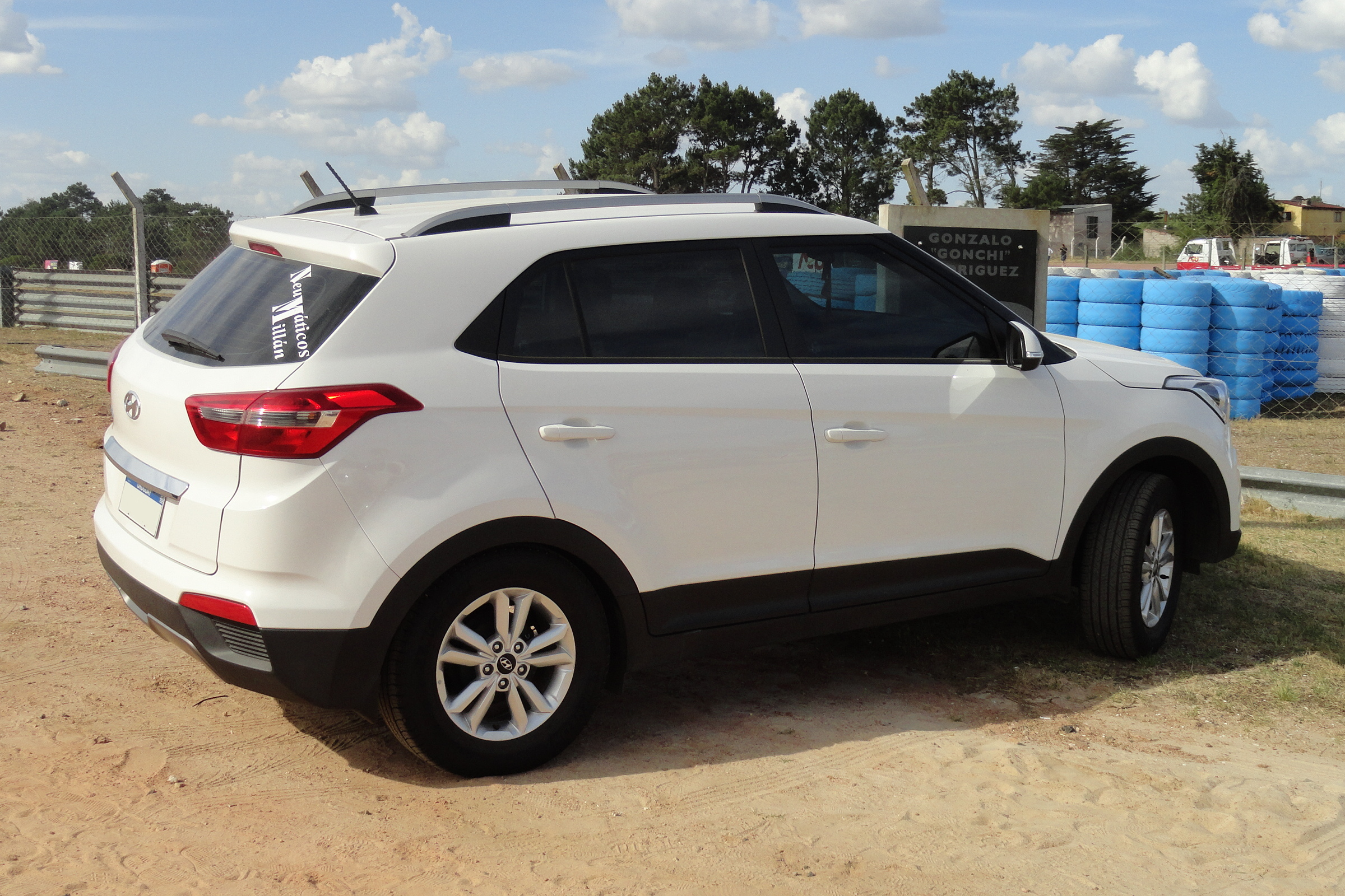 Hyundai Creta